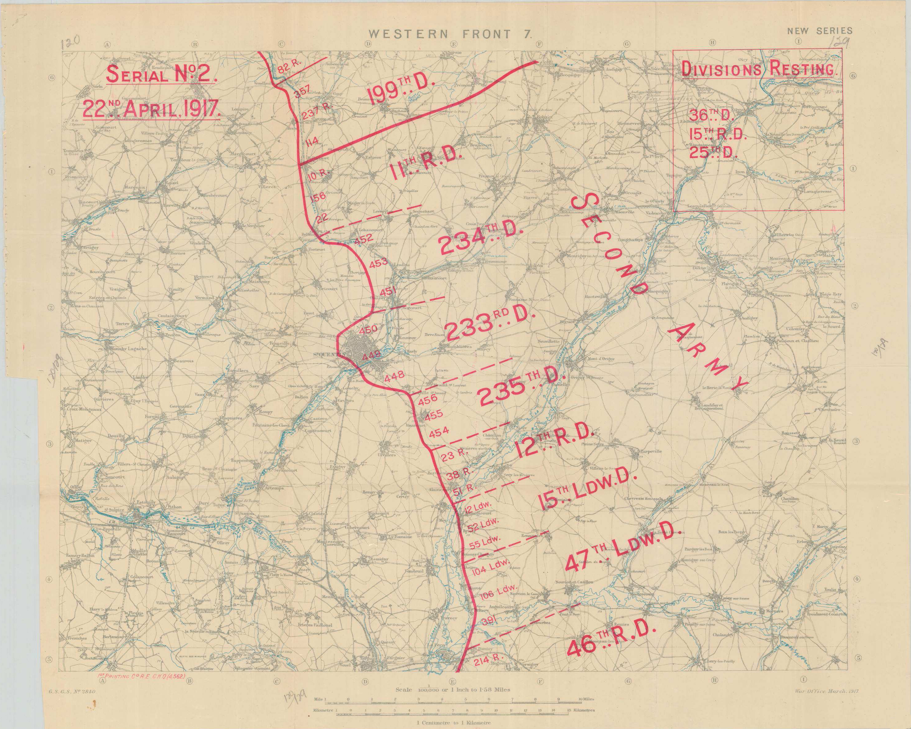 Disposition of German troops on 22 April 1917, between La Fere and Gouy. Focus is placed on Saint-Quentin.